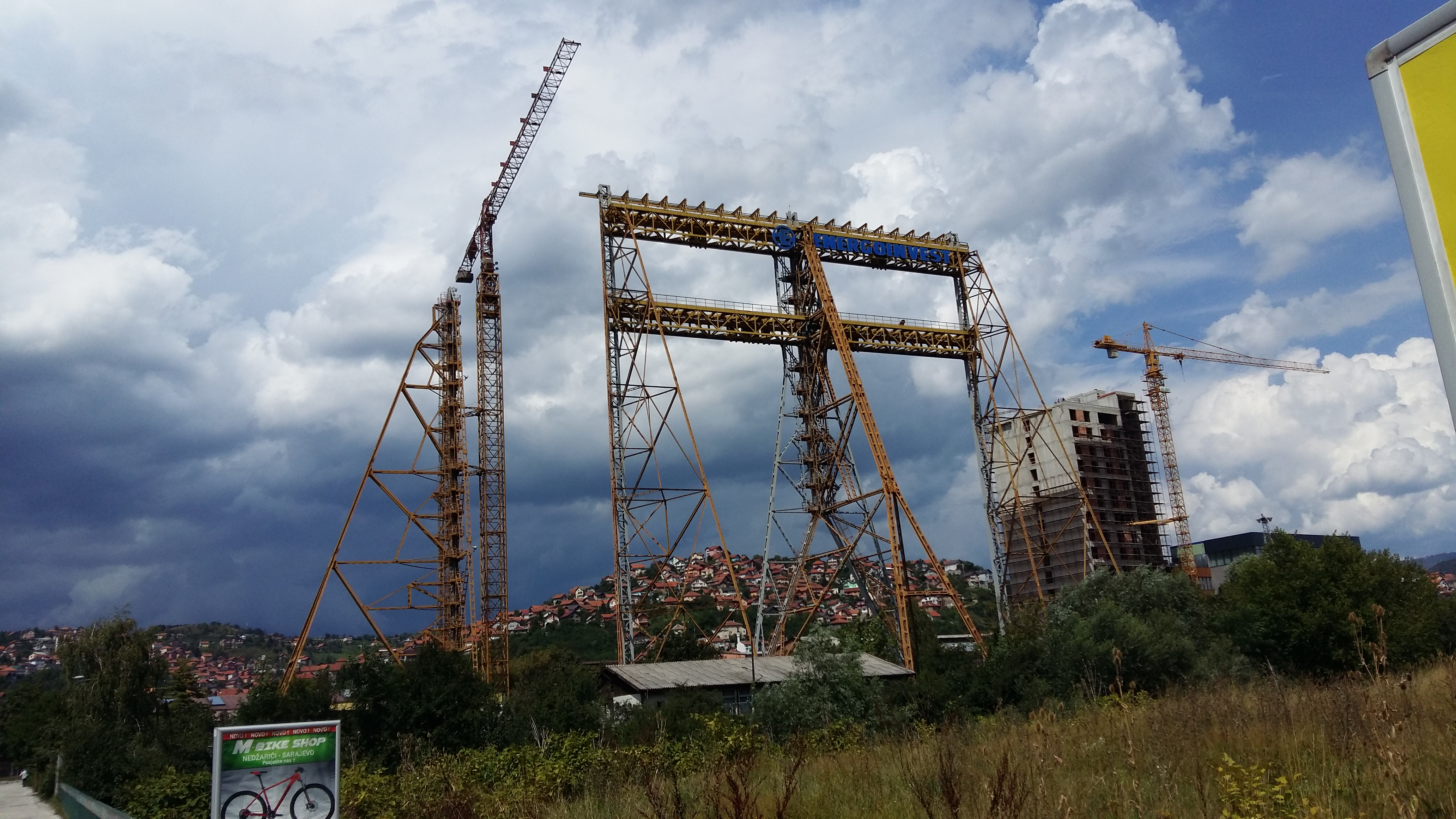 A building site of the bosnian company "Energoinvest" in Sarajevo.